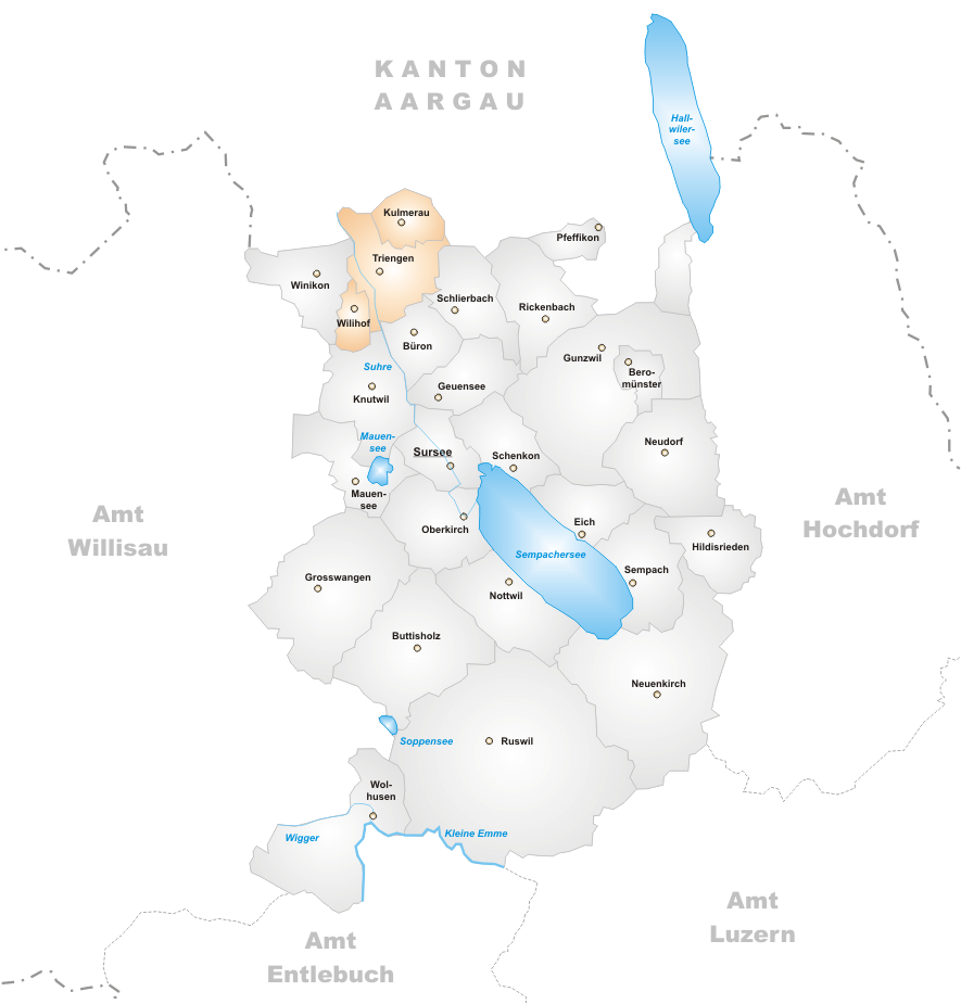 Municipalities of District Sursee until 2004